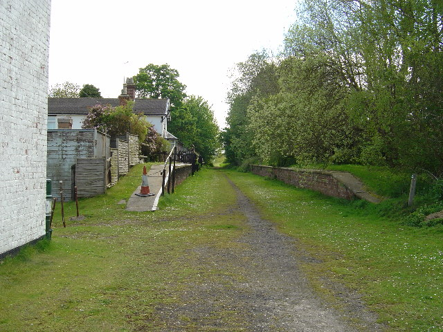 Kiplingcotes Railway Station, near Kiplingcotes, East Riding of Yorkshire, EnglandOn the Hudson Way (the old Beverley - Market Weighton railway track)the old station is now a private residence. The building on the left of the picture is a furniture retailer.